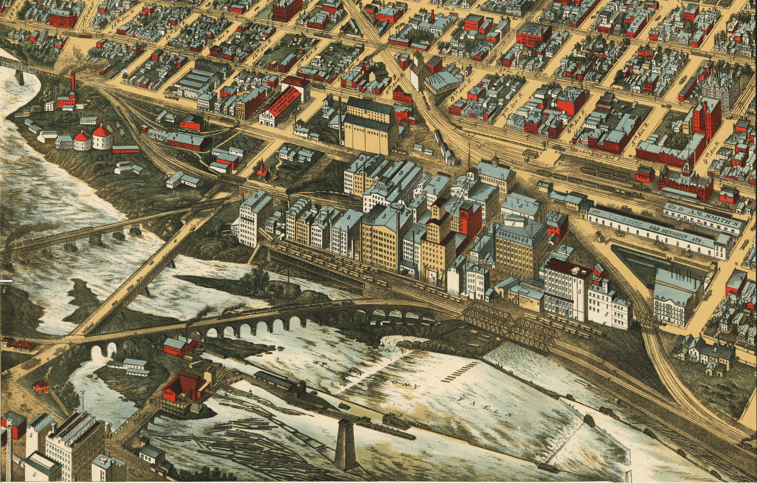 "Bird's eye view of Minneapolis, Minn.", a ca. 1891 lithograph of the Mills District in 1895. South is towards the top of the photo. Illustrated are Stone Arch Bridge, the Crown Roller Mill (now home to Walden University), Saint Anthony Falls as well as an early iteration of the Minneapolis Chicago. The lithograph did not show the old town of St. Anthony, which would've been below the image.